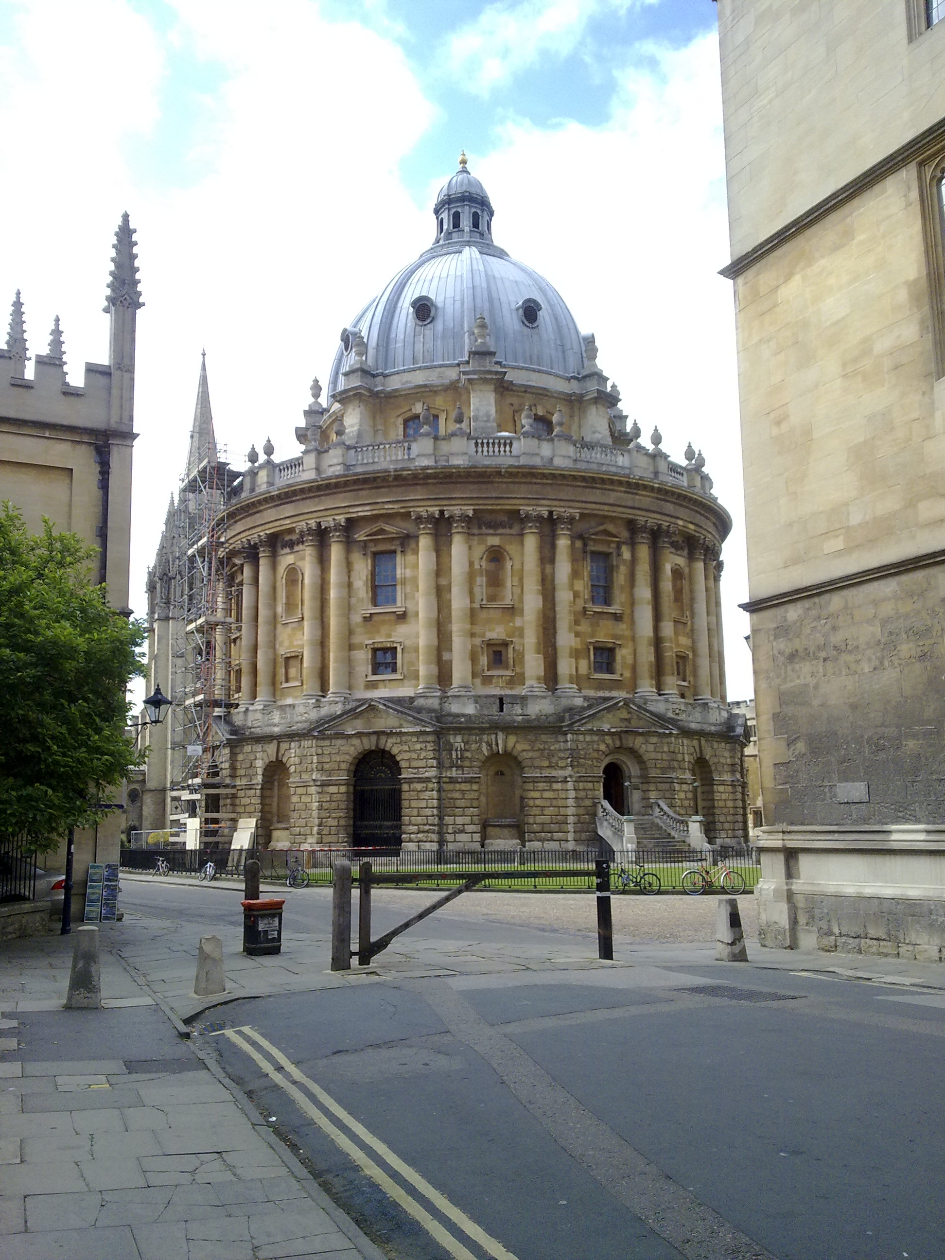 The Radcliffe Camera as seen from the north eastern corner of Radcliffe Square, adjacent the Bodleian Library.